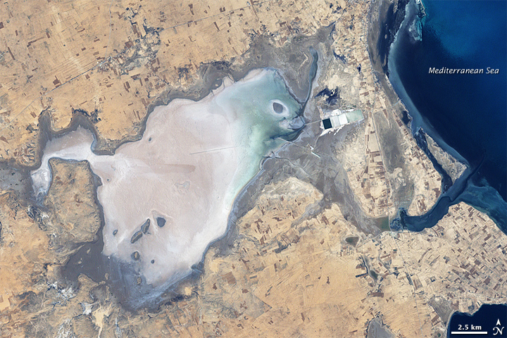 Sebkha El Melah in 2001, Medenine, Tunisia